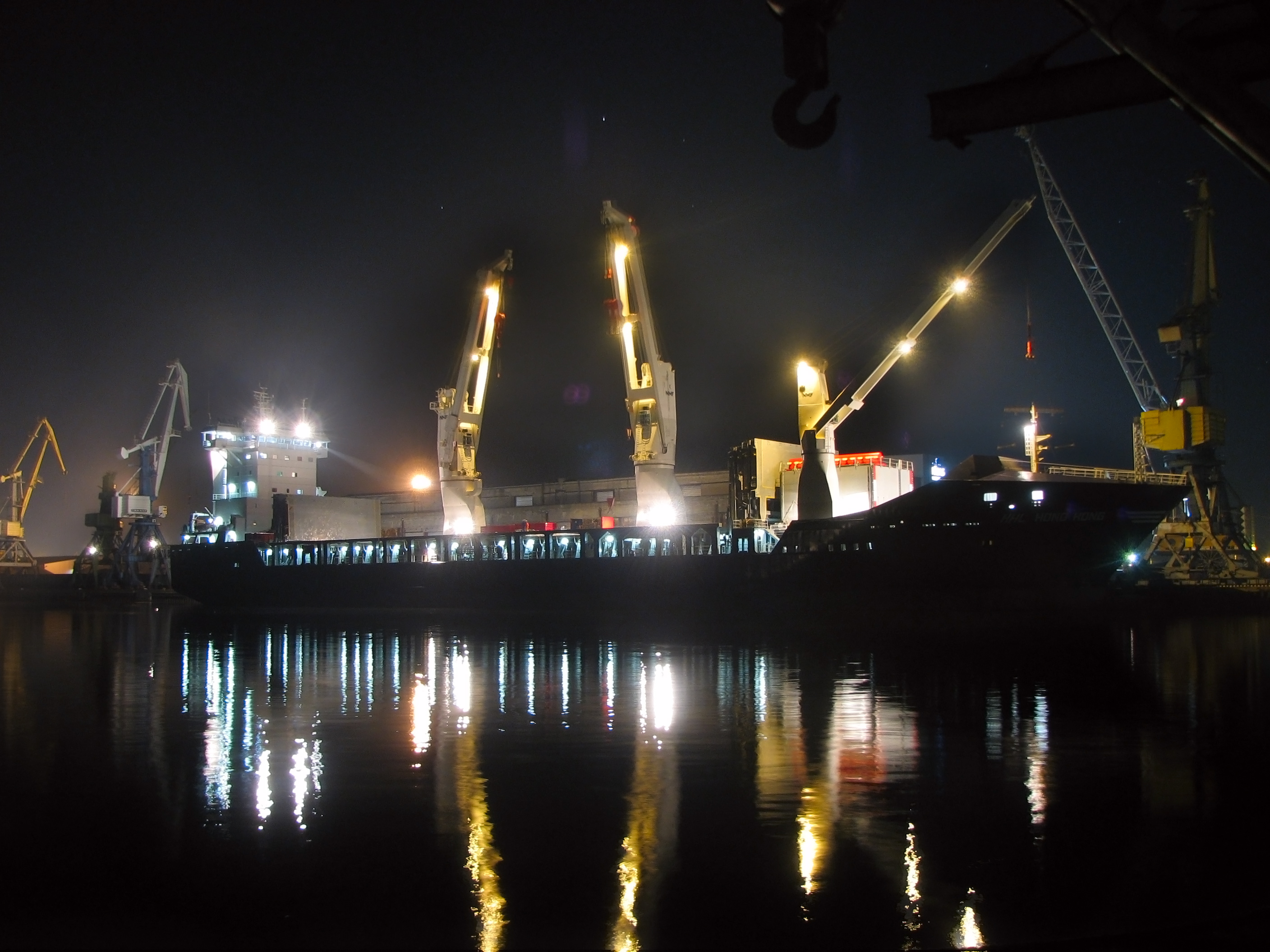 A ship in the port of Riga, Latvia.